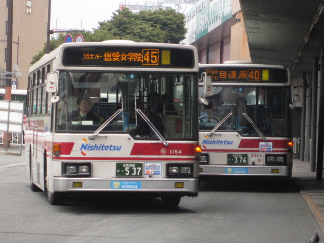 Isuzu Cubic KC-LV380N and U-LV324M for Nishitetsu Bus Saga #1154 and 2653, respectively, at Nishitetsu Kurume Bus Center